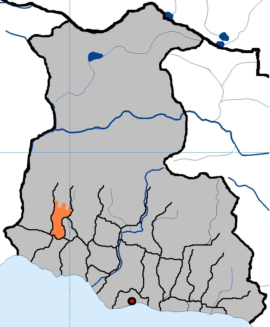 Map showing the location of the village Blabyrkhua in Abkhazia.